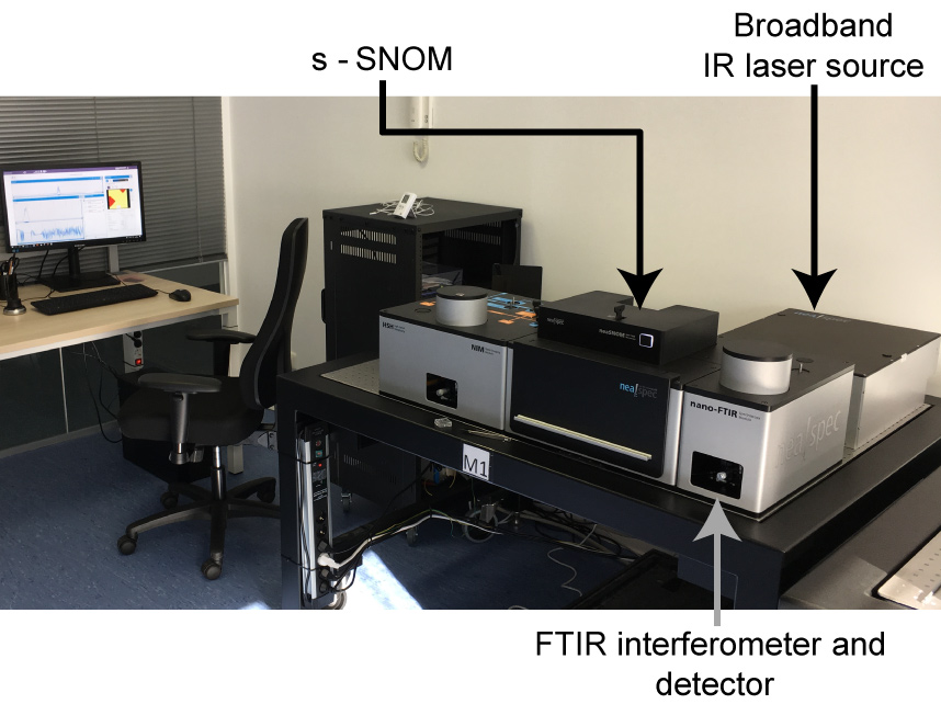 A modern nano-FTIR setup with the main components marked by arrows.